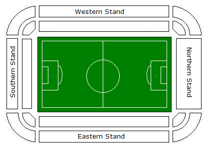 A diagram of the Stand alignment of the football stadium Swedbank Stadion. Swedbank Stadion is the home of Malmö FF. I created this myself using MS Paint. Credit goes out to PeeJay2K3 for image of pitch and certain stand designs from File:StadiumofLightPlan.png